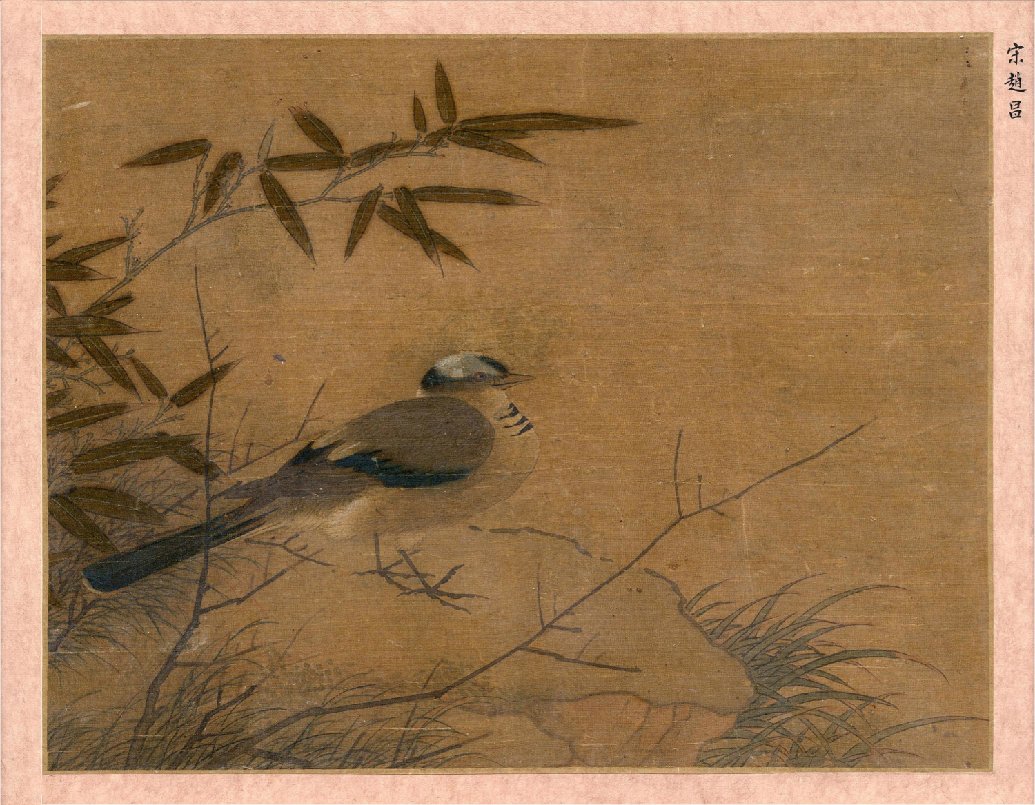 《Album leaf. Bird.》by Zhao Chang